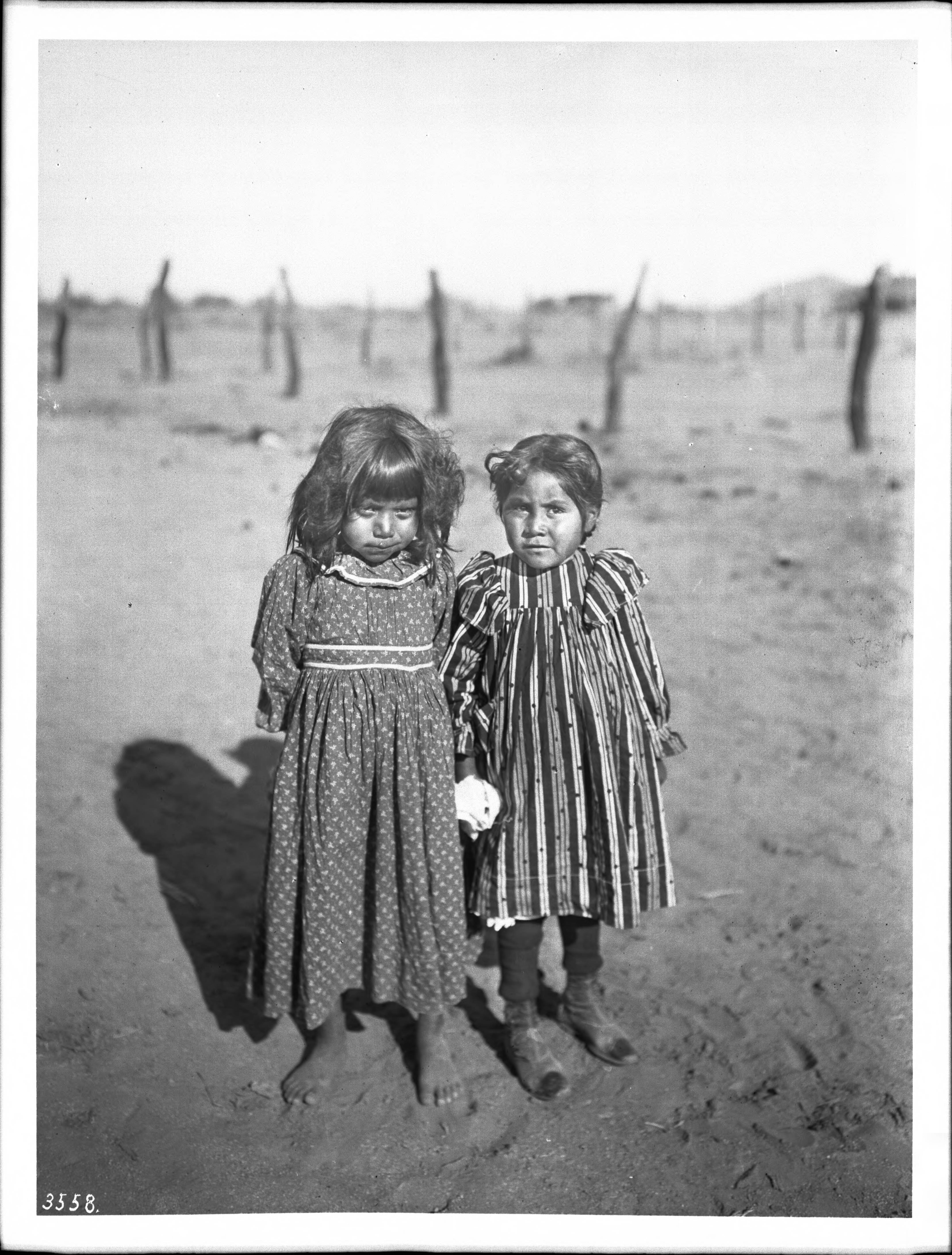 Two young Pima Indian school girls, ca.1900 Photograph of two young Pima Indian school girls, ca.1900. They are dressed in print dresses (one with stripes, one with dots). One is barefoot. They are standing in a field. Behind them a wire and wood post fence is visible. Call number: CHS-3558 Legacy record ID: chs-m16166; USC-1-1-1-13956 Photographer: Pierce, C.C. (Charles C.), 1861-1946 Filename: CHS-3558 Coverage date: circa 1900 Part of collection: California Historical Society Collection, 1860-1960 Type: images Geographic subject (city or populated place): Gila Crossing Repository name: USC Libraries Special Collections Accession number: 3558 Microfiche number: 1-14- Archival file: chs_Volume95/CHS-3558.tiff Part of subcollection: Title Insurance and Trust, and C.C. Pierce Photography Collection, 1860-1960 Repository address: Doheny Memorial Library, Los Angeles, CA 90089-0189 Geographic subject (country): USA Format (aacr2): 2 photographs : glass photonegative, photoprint, b&w ; 17 x 22 cm. Rights: Digitally reproduced by the USC Digital Library; From the California Historical Society Collection at the University of Southern California Subject (adlf): tribal areas Project: USC Repository Contributing entity: California Historical Society Date created: circa 1900 Publisher (of the digital version): University of Southern California. Libraries Format (aat): photographic prints; photographs Geographic subject (state): Arizona Subject (file heading): Indians -- Pima Format: glass plate negatives Access conditions: Send requests to address or e-mail given. Phone (213) 821-2366; fax (213) 740-2343. Geographic subject (county): Maricopa Subject (lcsh): Indians of North America; Pima Indians; Children Subject: Pima Indians